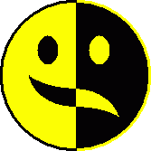 Half smiling, half sad emoticon